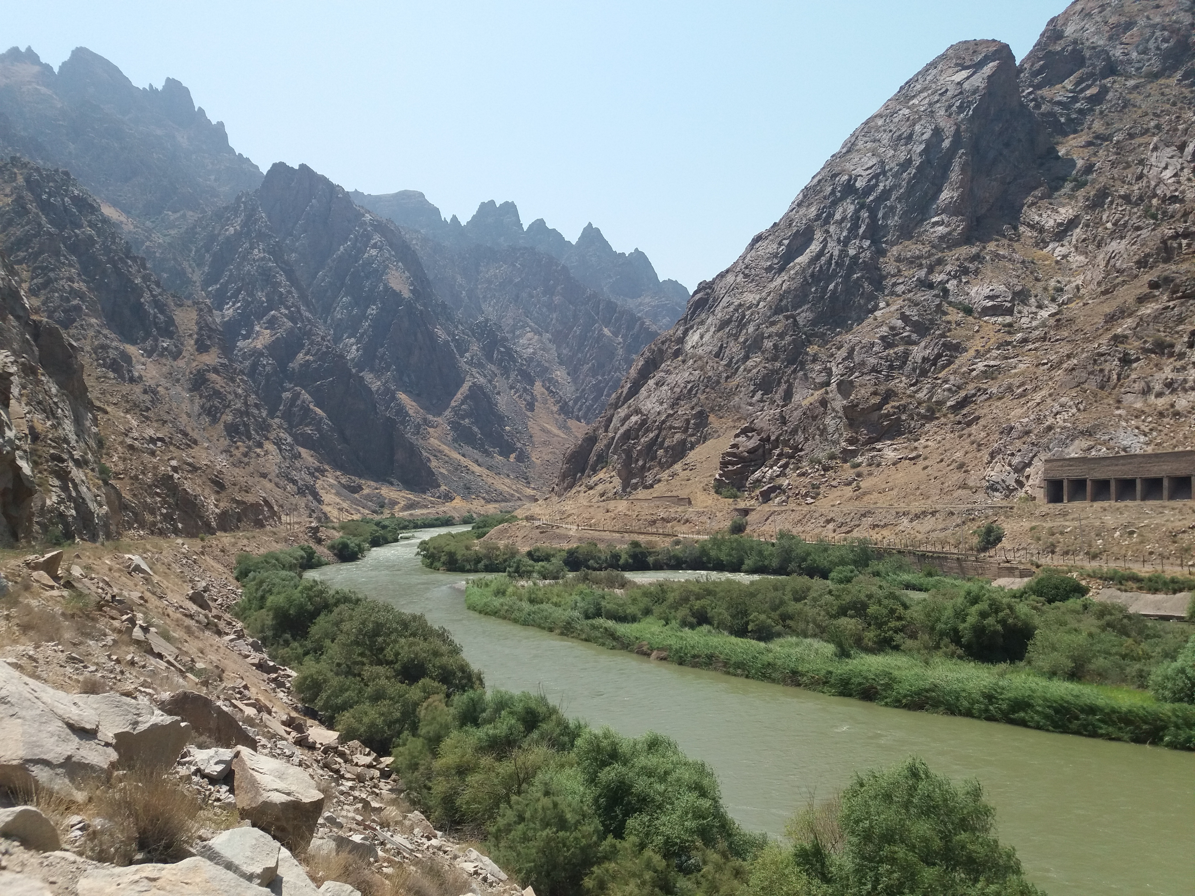 Aras river at Nurduz